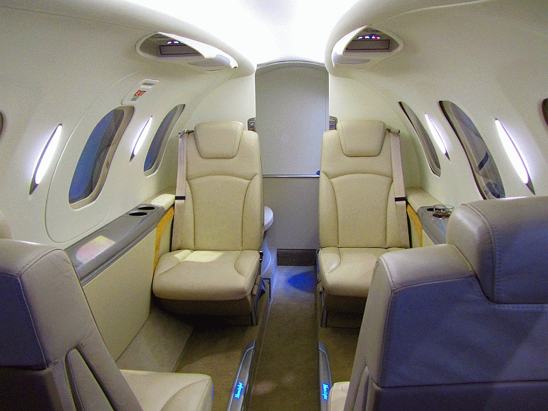 Honda HA-420 HondaJet Interior